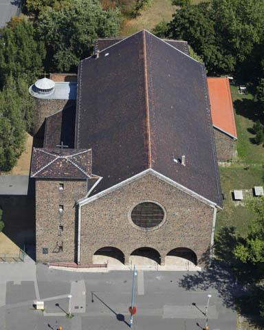 XIV. District Budapest, Hungary, aerial photography, temple, before its renovation